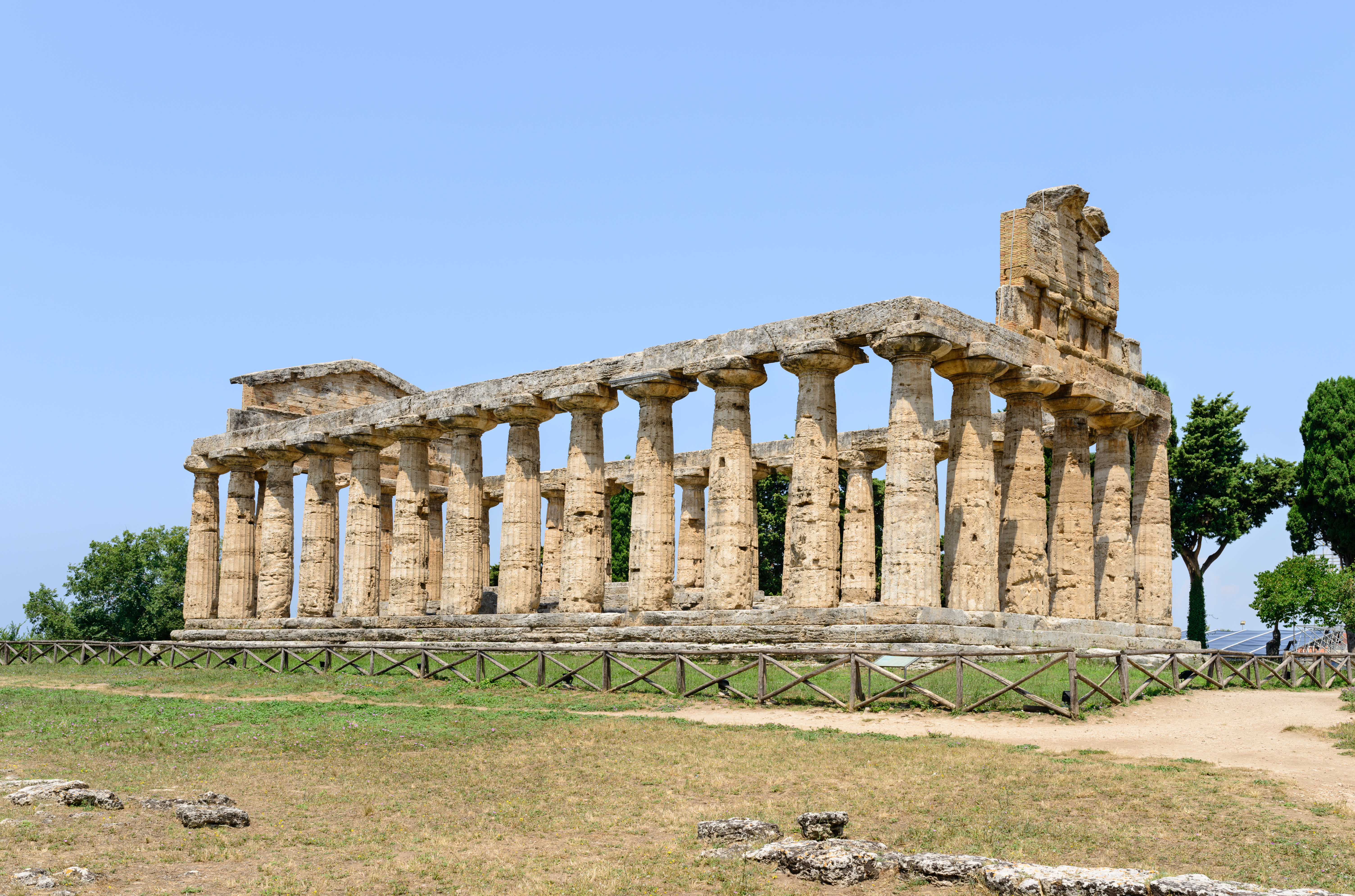 Temple of Athena (Minerva) in Poseidonia (Paestum), Campania, Italy.